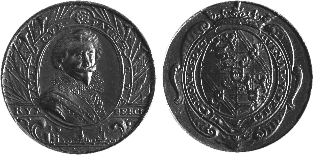 Coint Siege of Rheinberg 1633 by Frederik Hendrik